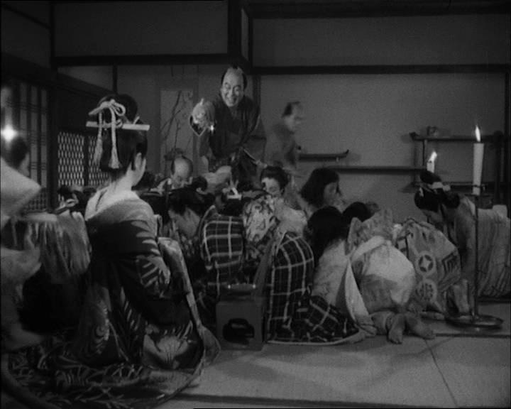 Screenshot from The Life of Oharu, 1952 film.